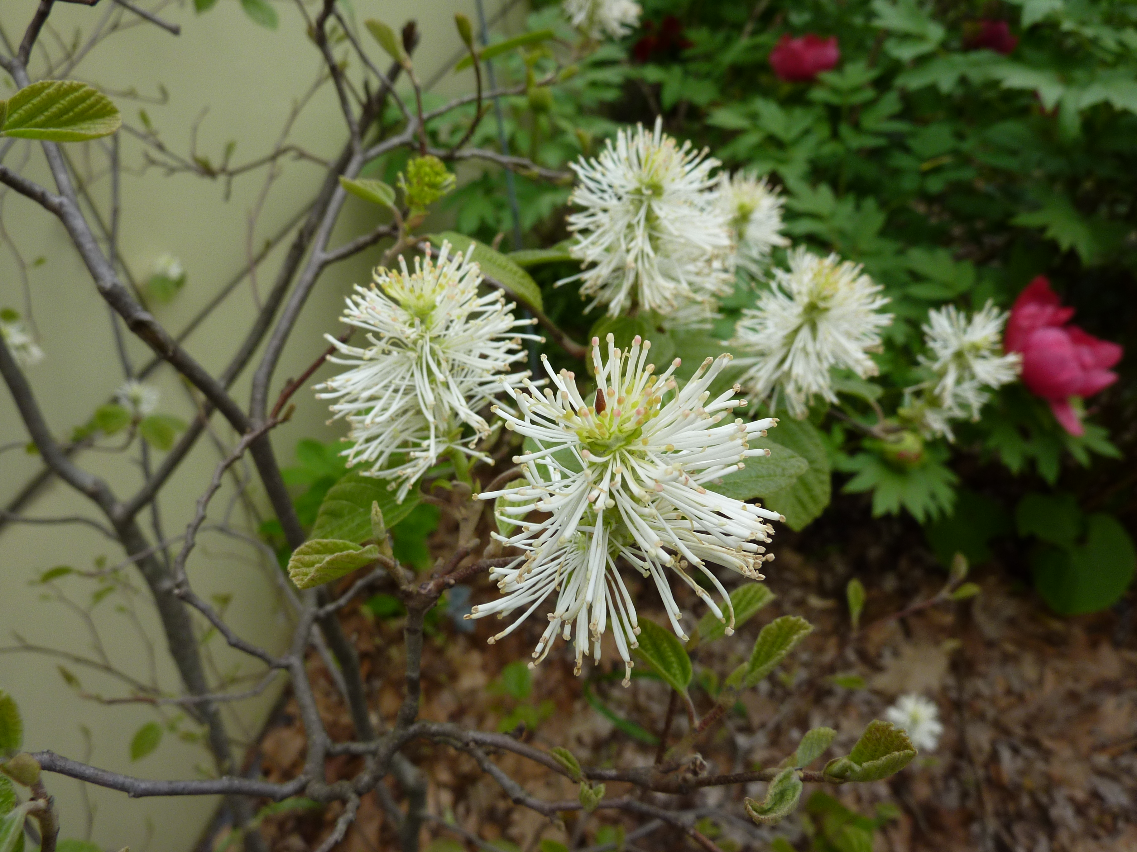 Fothergilla gardenii flowering in the garden of botanist Robert R. Kowal in Madison, Wisconsin, USA